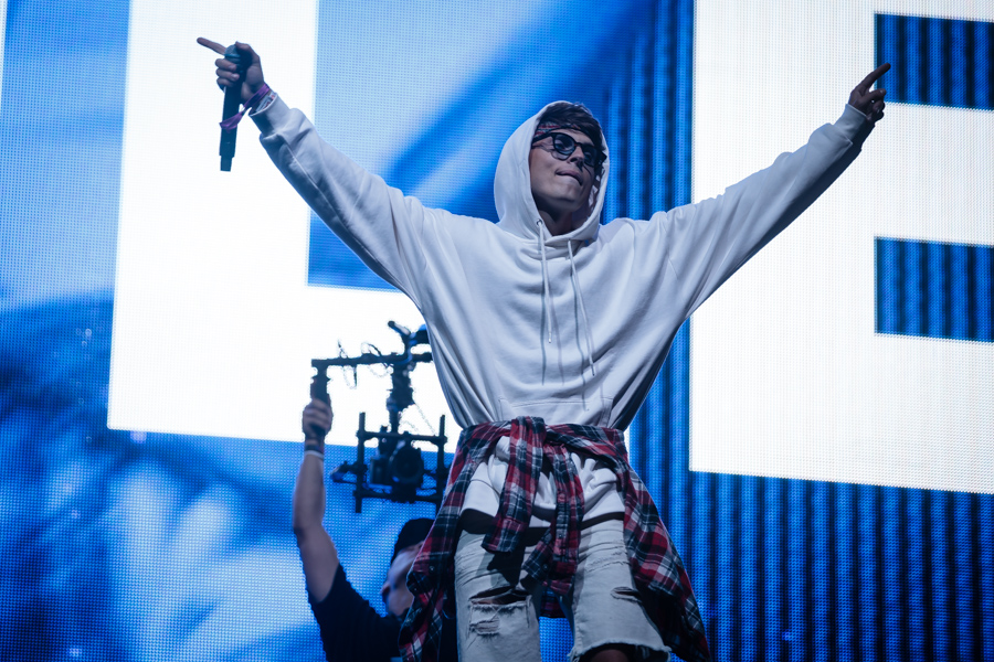 Broiler at the main stage at Stavernfestivalen. The concert took place on 14. July 2018 in Stavern. Lineup:Mikkel Buxrud Christiansen (disc jockey)Simen Auke (disc jockey)